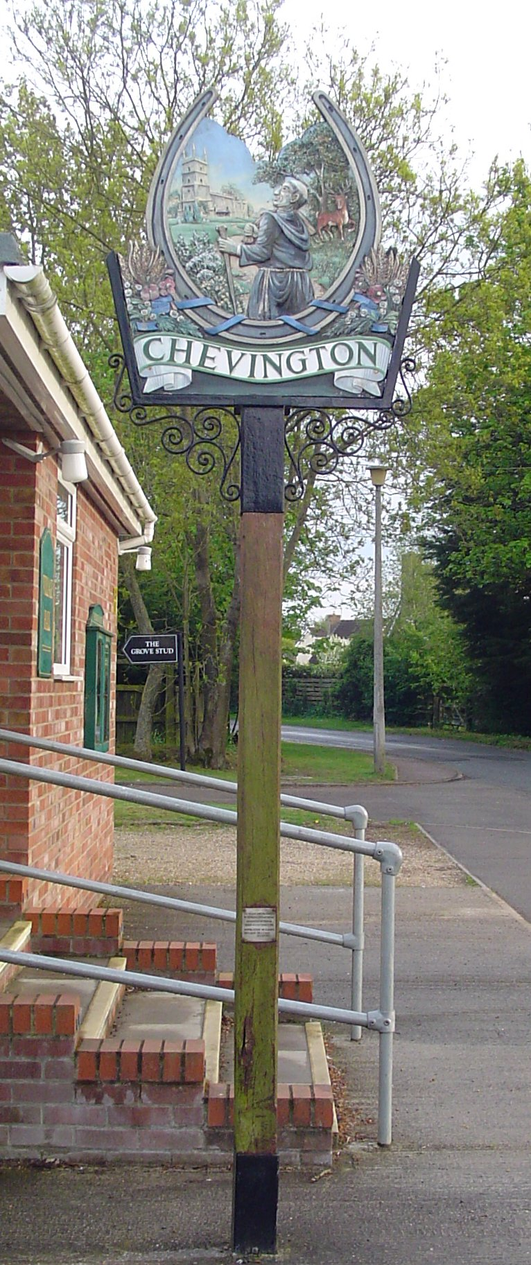 Signpost in Chevington